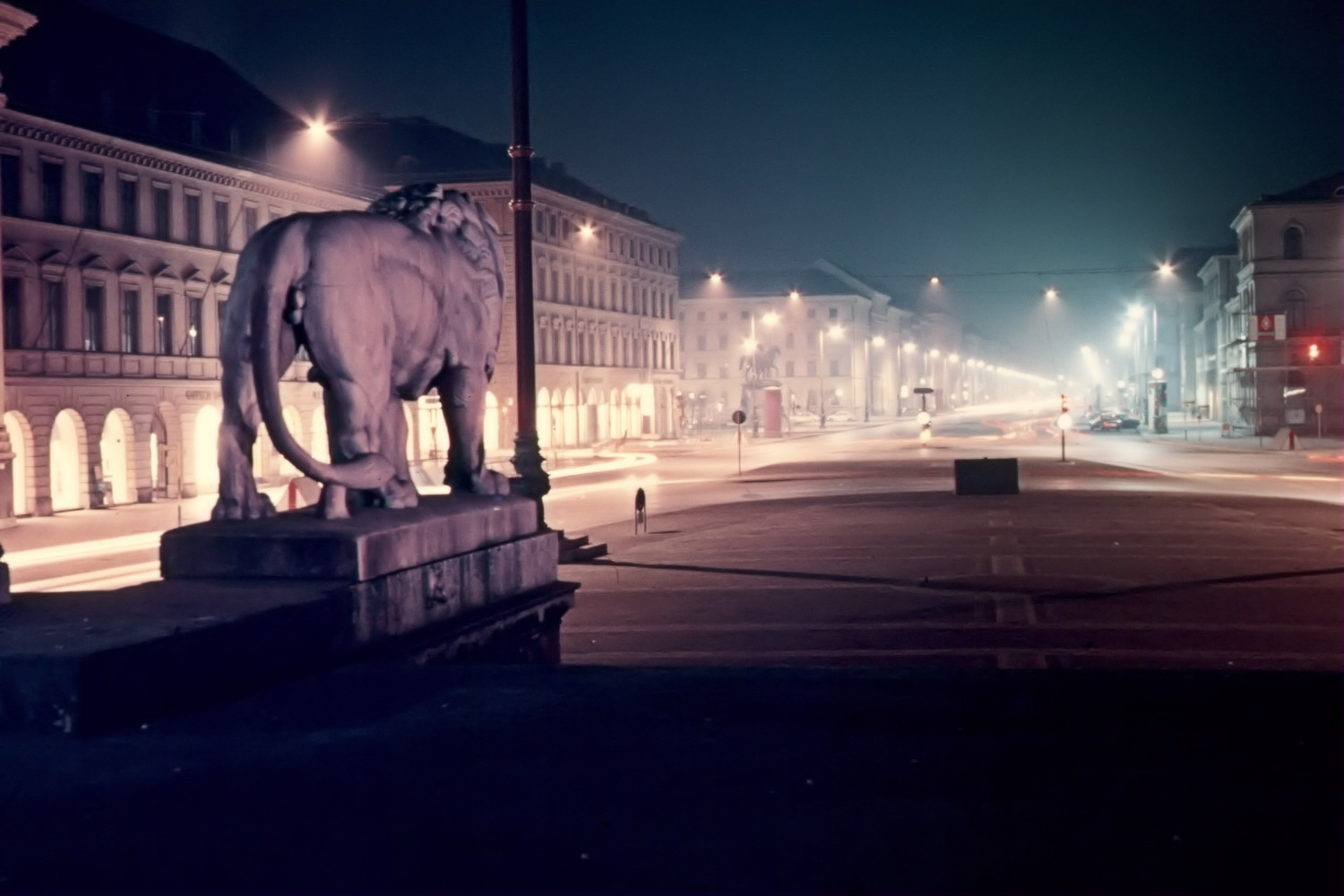 Germany, Bavaria, Munich, Feldherrnhalle, View to Leopoldsteet